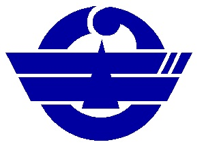 Ginowan Okinawa chapter